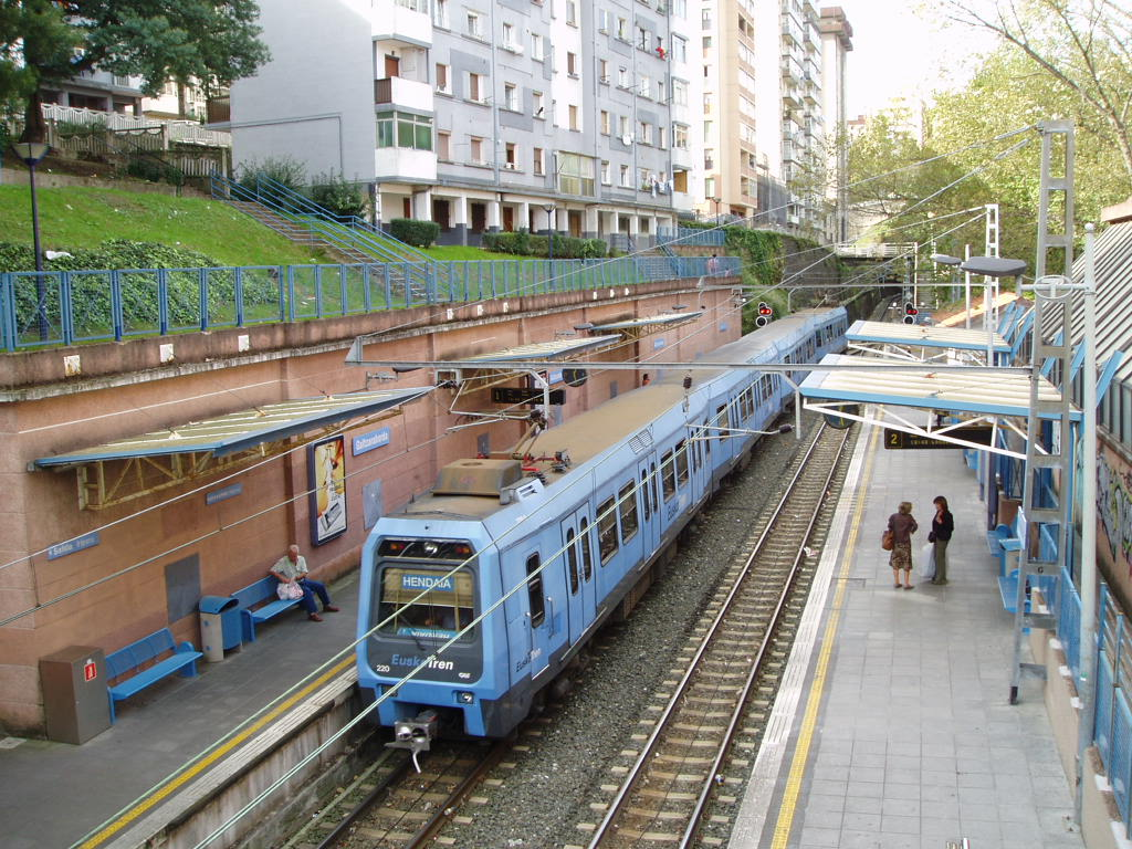 Railway station of Galtzaraborda (neighbourghood of Errenteria) (Gipuzkoa). Operating company: Euskotren.